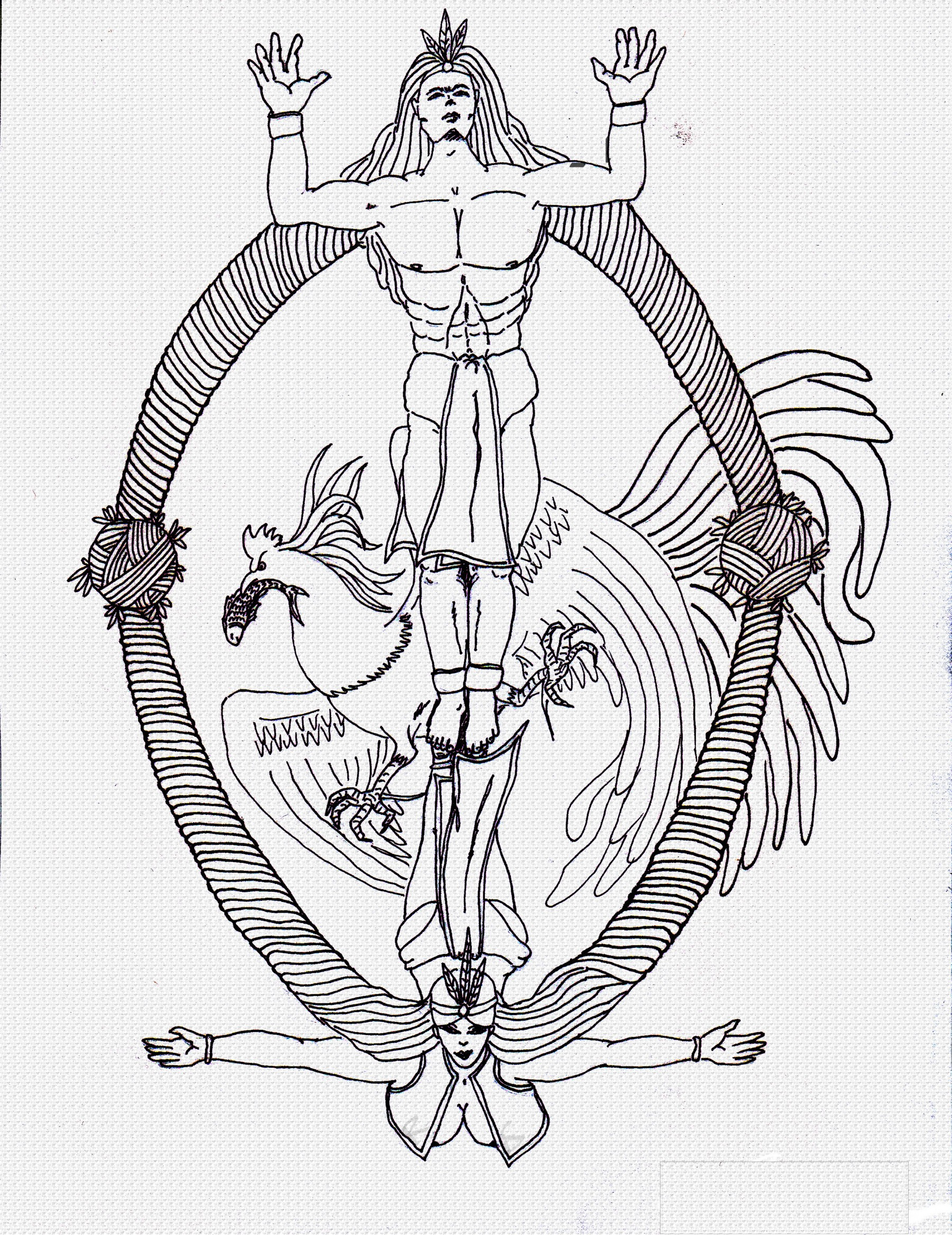 Malakas [top], Maganda [bottom]and the tigmamanukan (omen animal) called bathala (center) of Philippine mythology and folklore. This illustration was created by pencil and pen drawing. This drawing was computer enhanced.